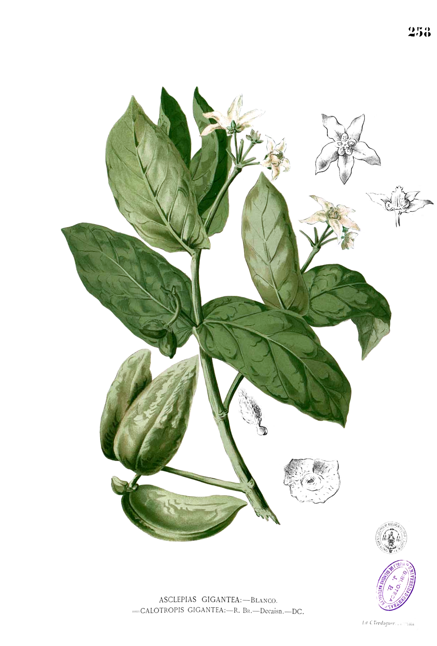 Plate from book